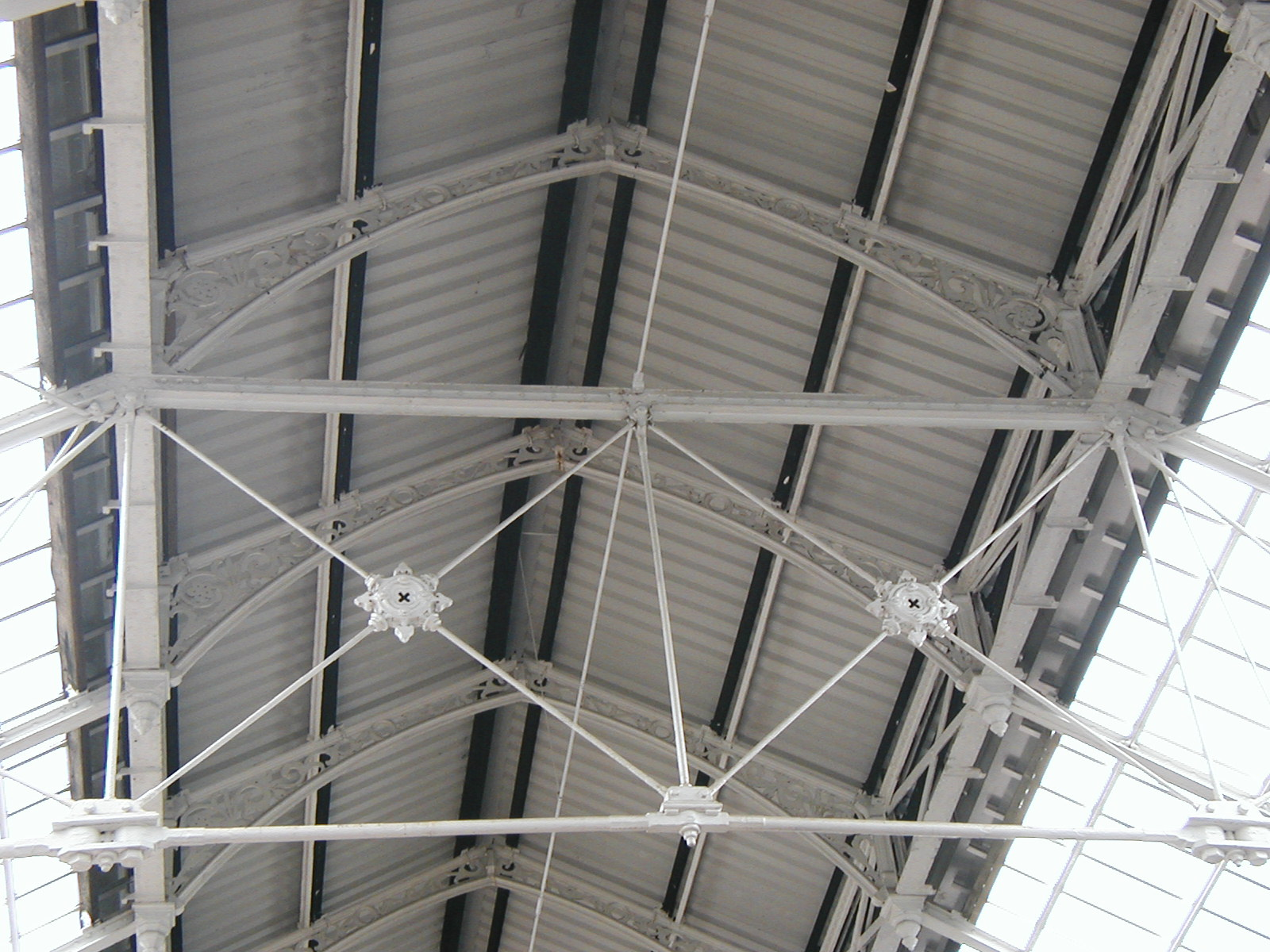 Preston Station. Detail of train shed.